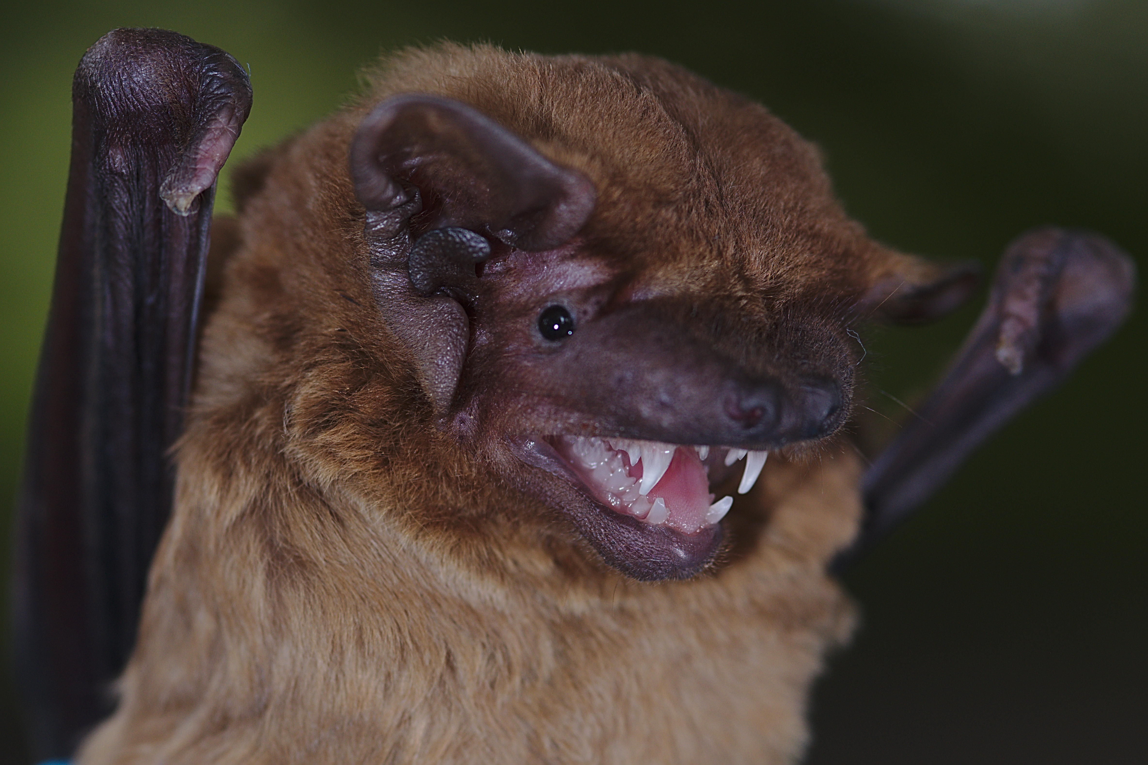 A specimen of common noctule.